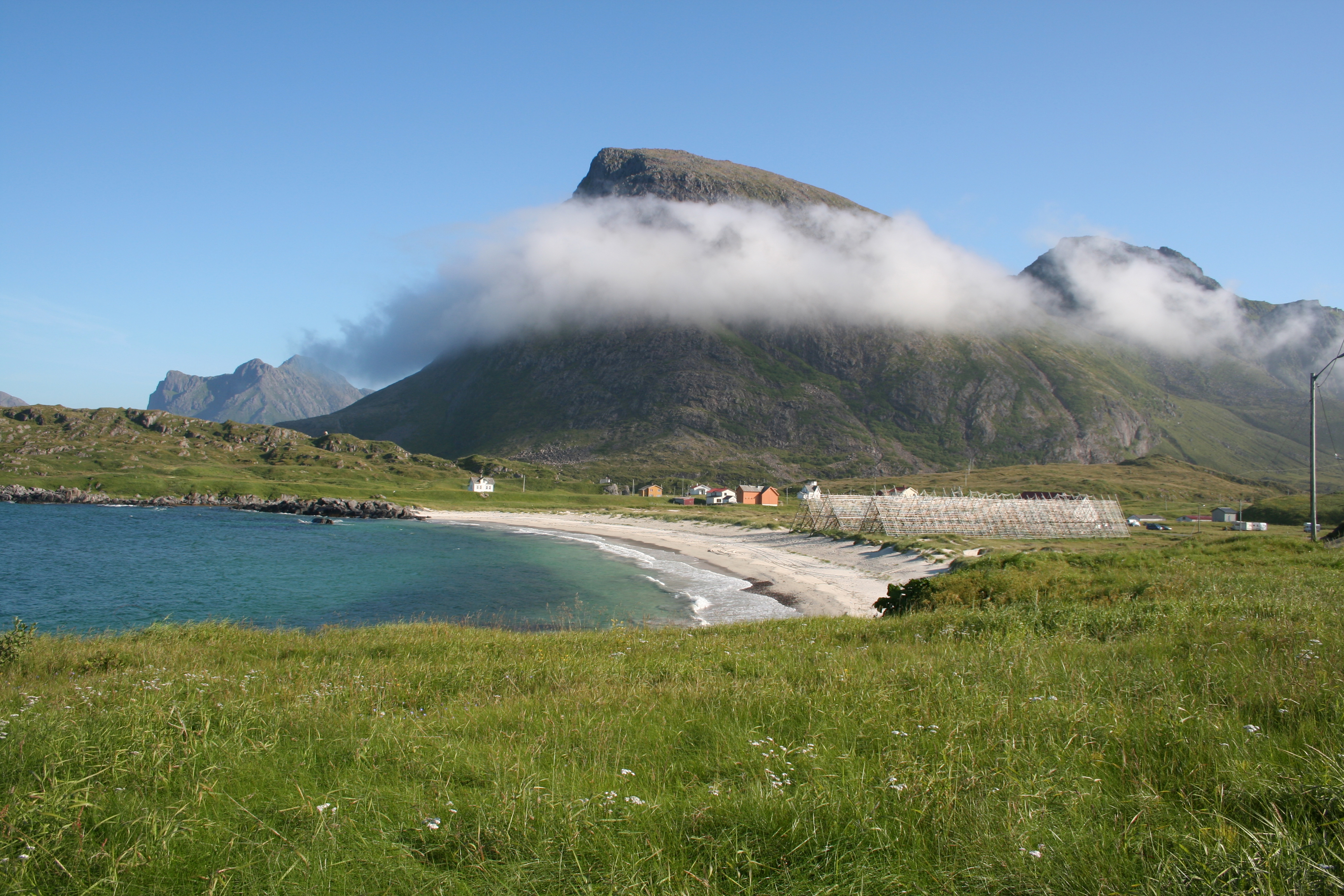 Hovden in Nordland county, Norway. This picture was taken by me on 29 July 2006.